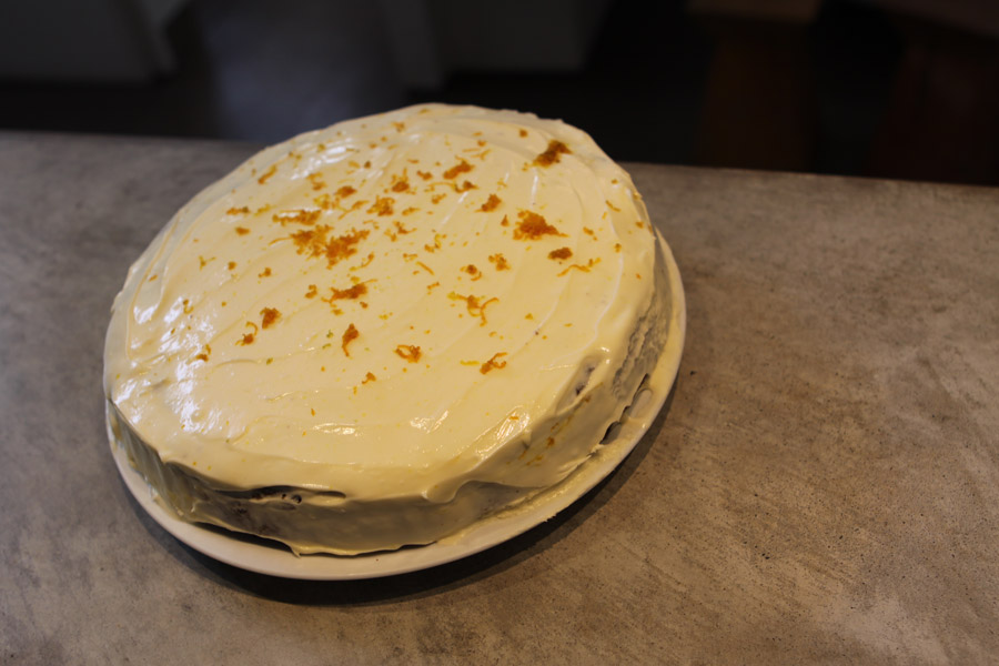 Happy Birthday James Driver. Best cake I've ever made. Cream cheese frosting and all.